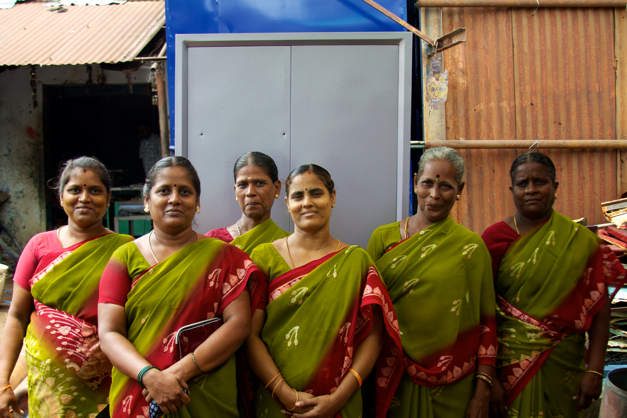 SHG women running a cabinet manufacturing business